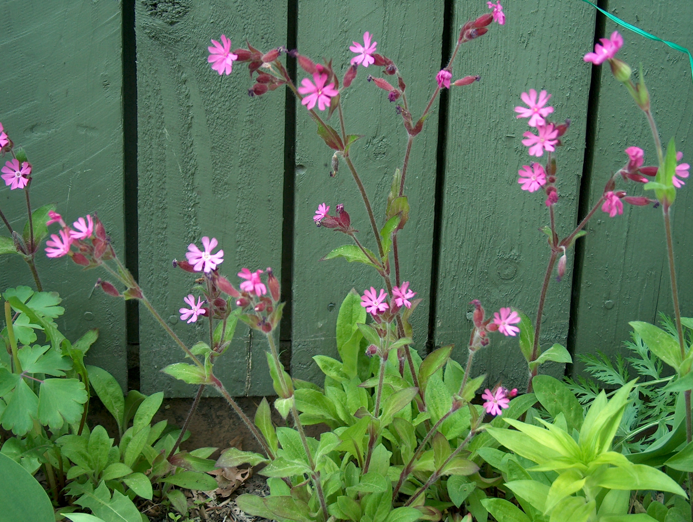 Silene dioica, Red campion - Kerava, Finland